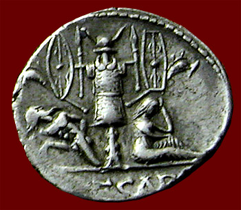 denarius of Julius Caesar; Spanish mint, 46-45 BCE; smaller version Obverse: head of Venus wearing a diadem, with a tiny Cupid and an augur's staff (lituus) in front; Reverse: Gallic military trophy with a captured Gaul on one side and a mourning female symbolizing Gallia, defeated, on the other. Berlin, Pergamon Museum.